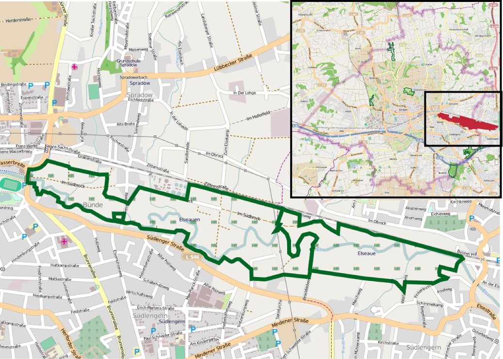 Bünde - Nature reserve Elseaue - overview mapNumber and borders of nature reserves are subject to frequent change. In order to facilitate reproduction of this map from openstreetmap, the following data is stored here: export boundaries: north: 52.215; west: 8.587; east: 8.644; south: 52.19; mapnik svg, scale 1:22.000 nature reserve boundary stroke weight 10.0; nature reserve stroke color: R 5, G 102, B 36; municipality border stroke weight: as found